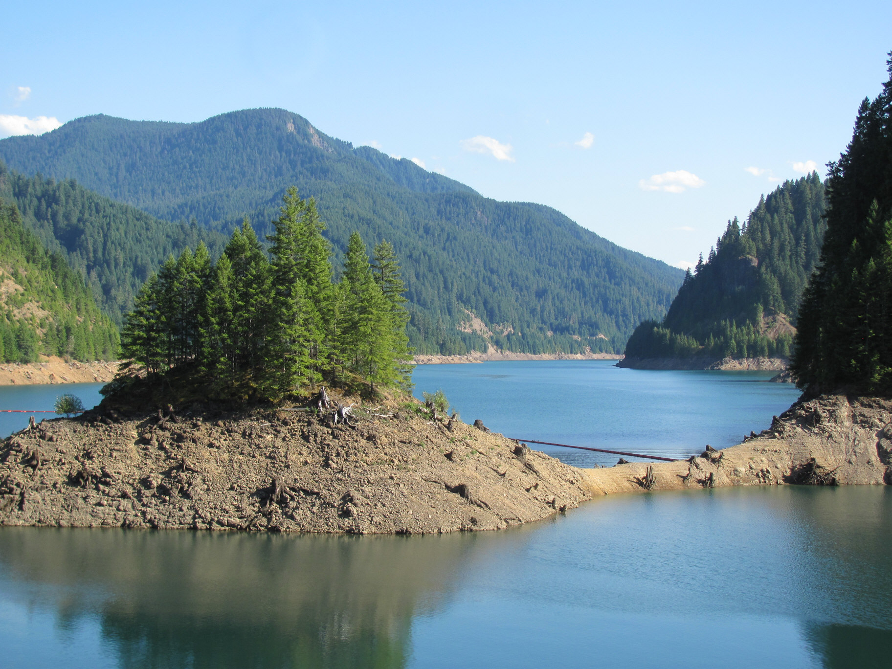 Cougar Reservoir on the South Fork McKenzie River in Lane County, Oregon, United States